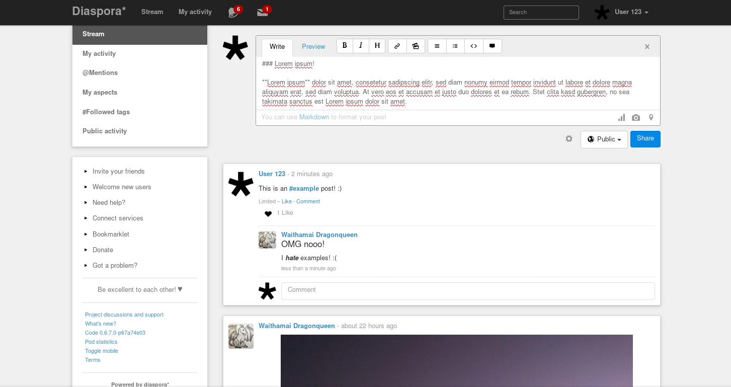 Picture of latest Diaspora